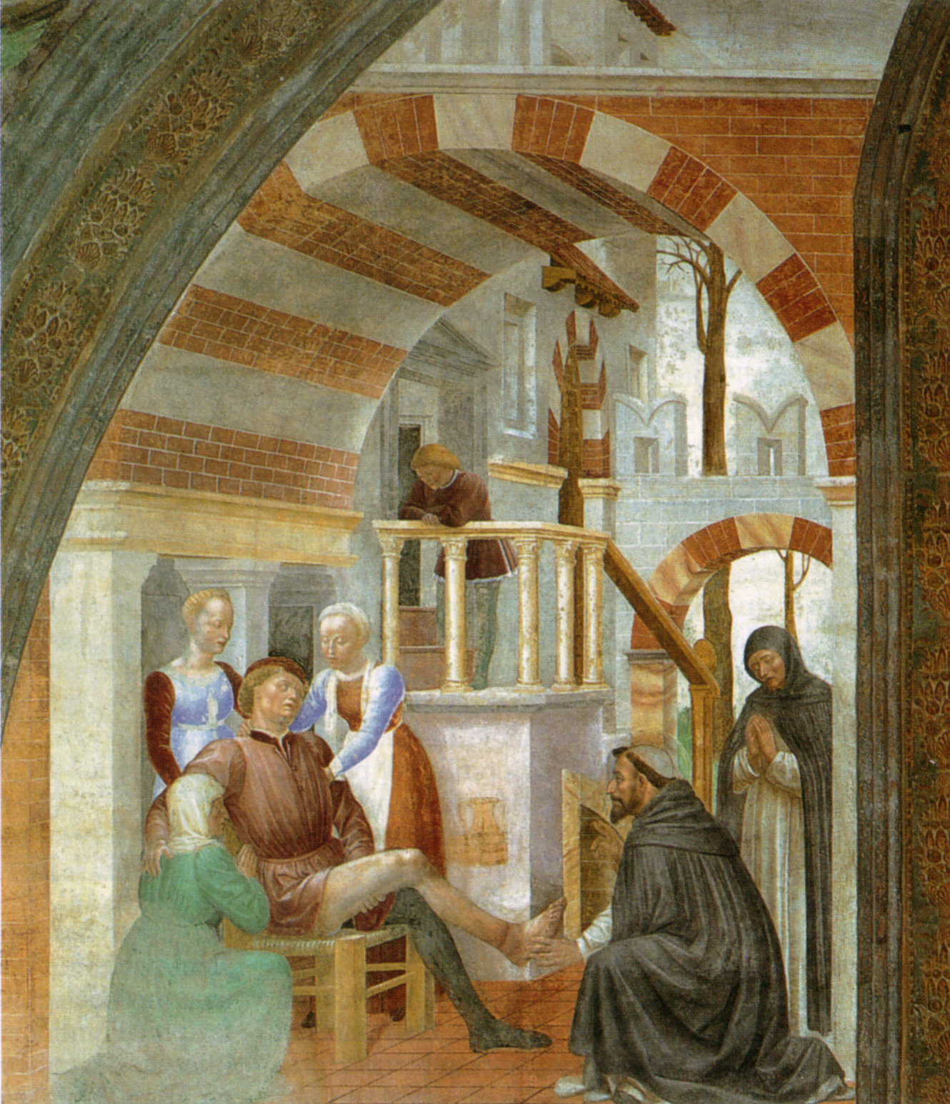 FOPPA, Vincenzo Miracle of the Cloud and Miracle of the False Madonna Fresco Sant'Eustorgio, Milan